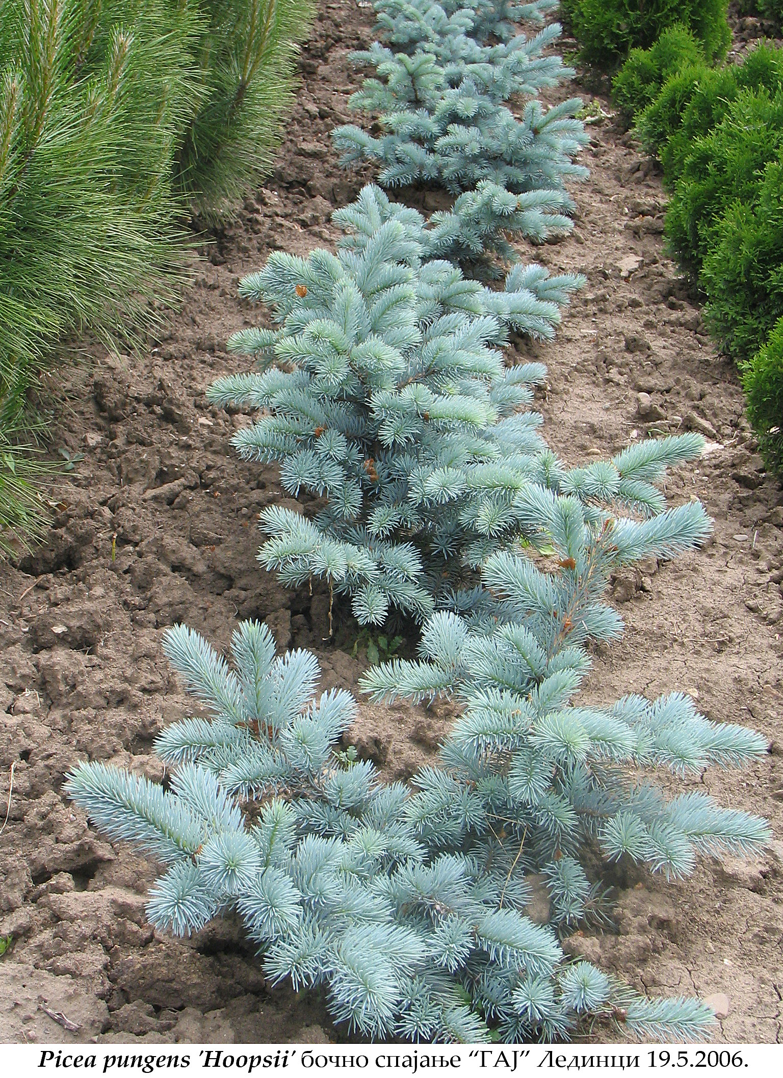 Picea pungens 'Hoopsii' Gaj nursery, Ledinci (Serbia)